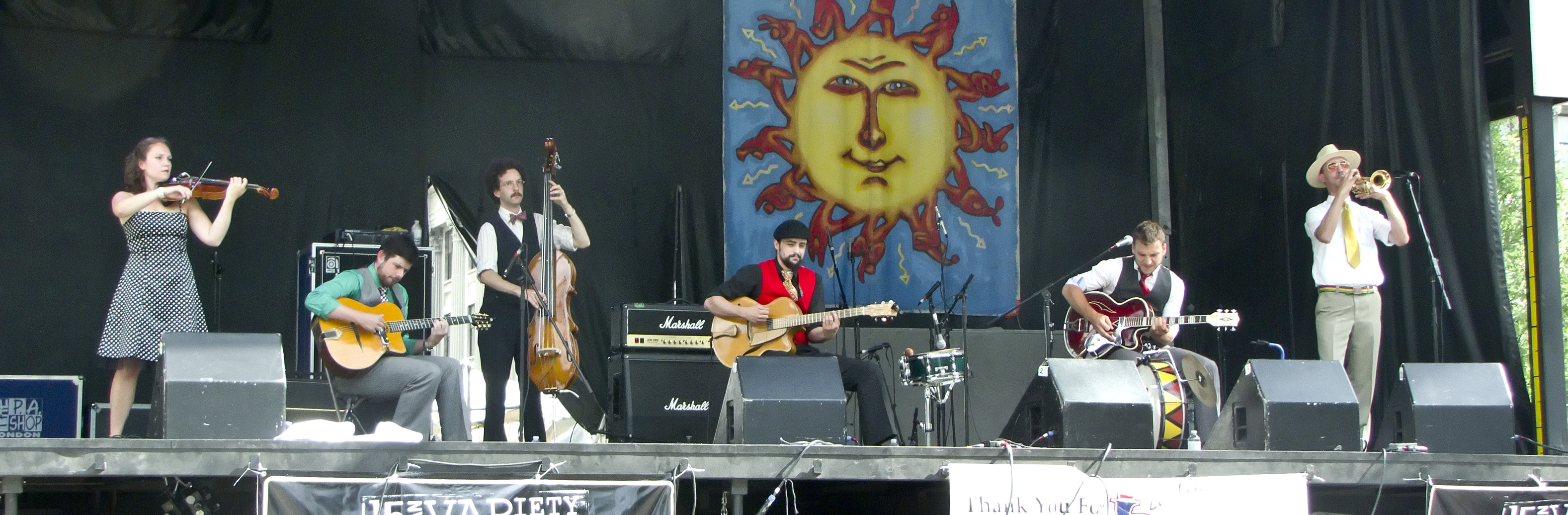 Gypsophilia performing at Sunfest in London, ON